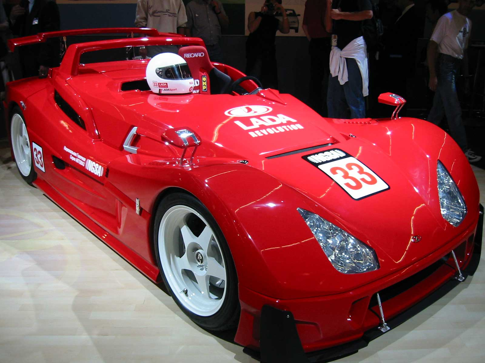 Lada Revolution